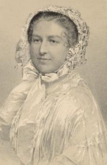 Lithograph of English soprano Louisa Pyne